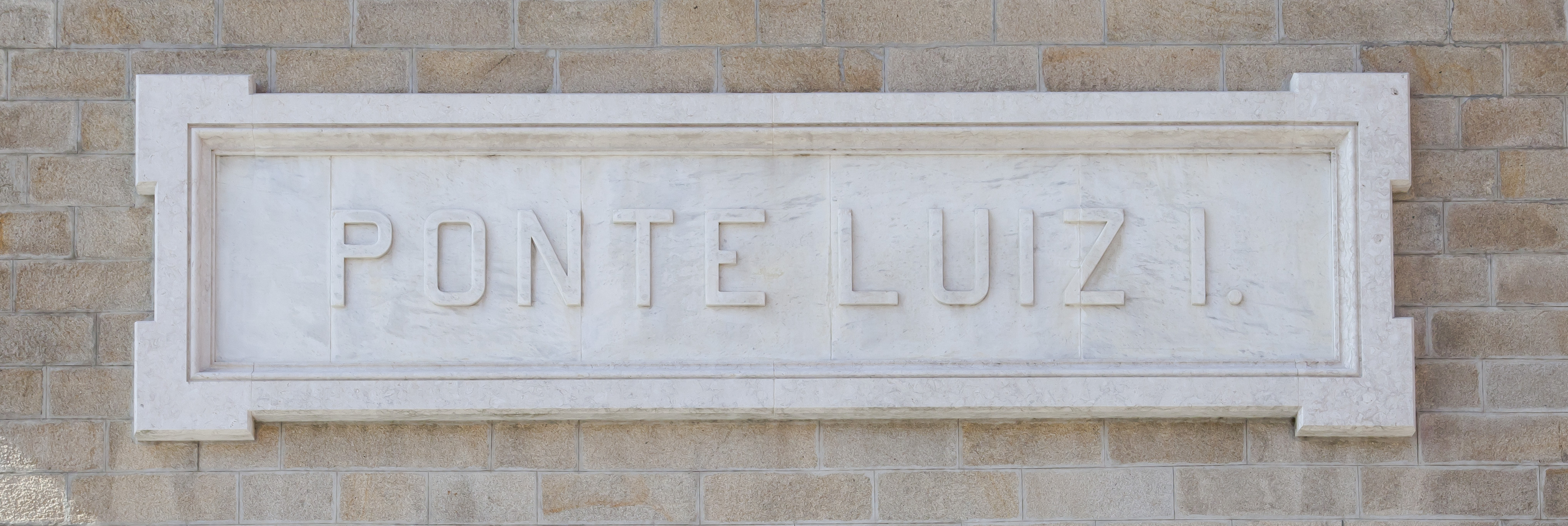 Dom Luis I bridge, Porto, Portugal